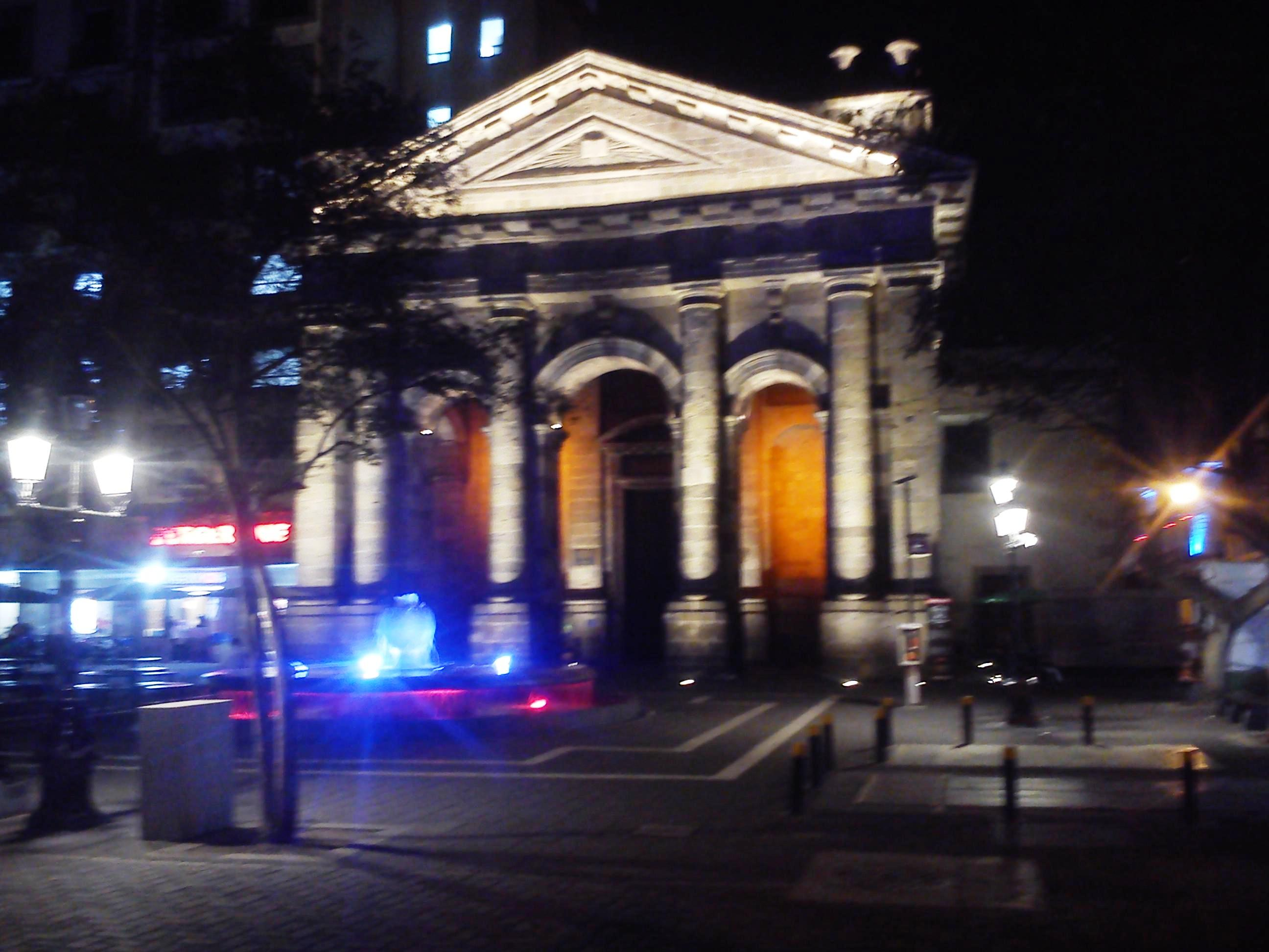 It is the seat of the Ibero-American Library "Octavio Paz". A former Catholic temple called Santo Tomás de Aquino (Saint Thomas Aquinas)